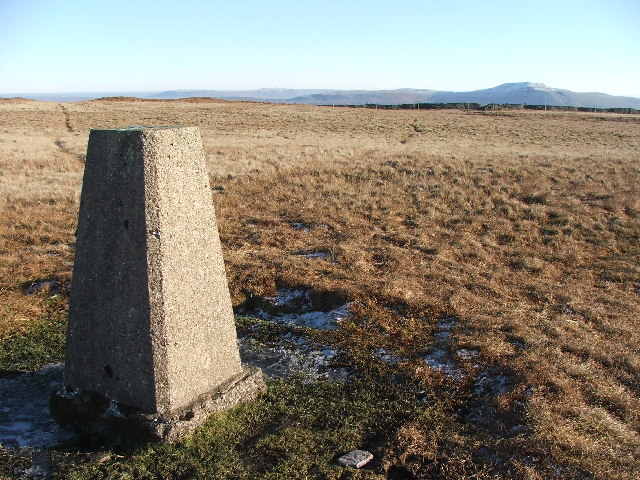 Gragareth, Yorkshire Dales, actually in Lancashire, England